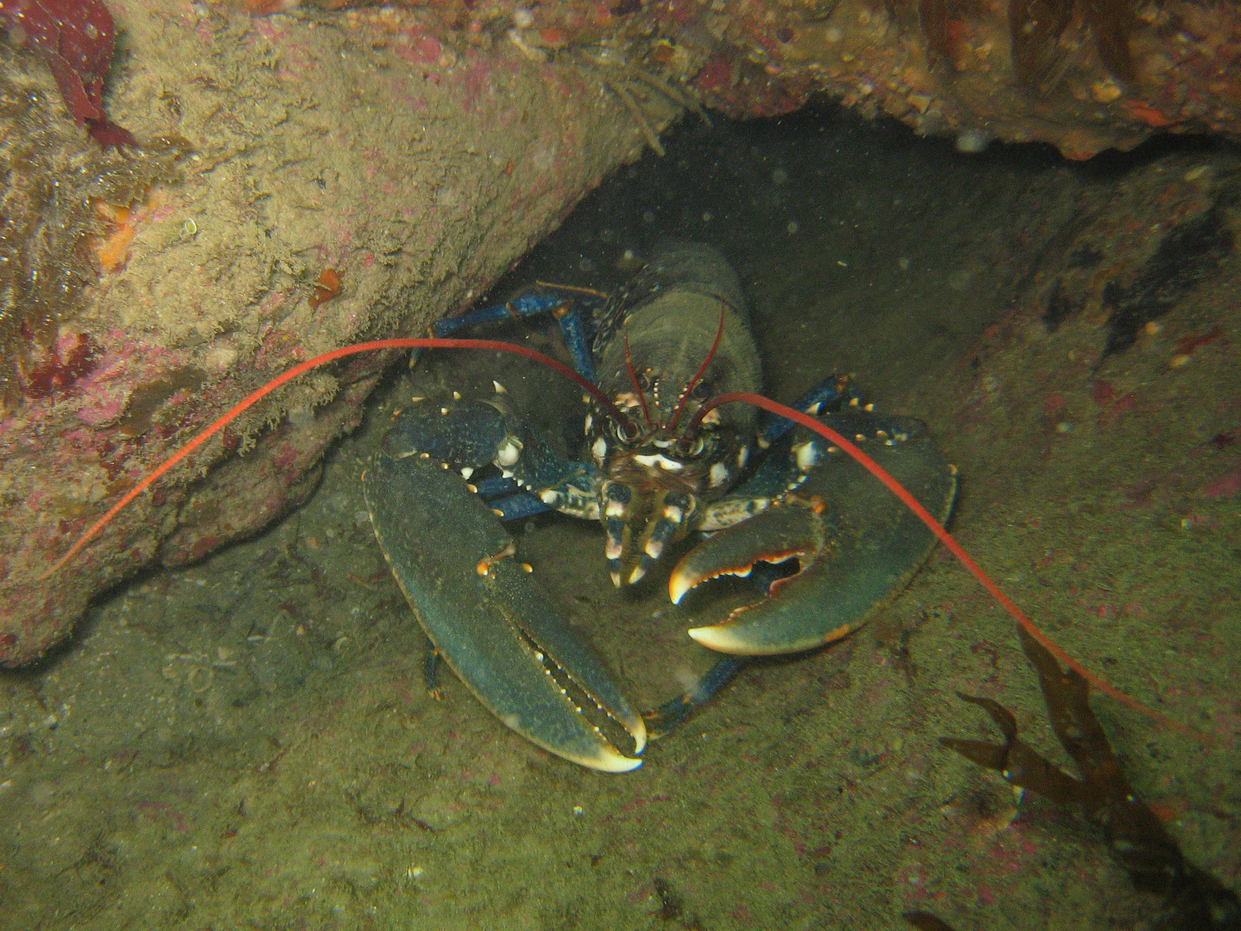 Homarus gammarus in Carantec.